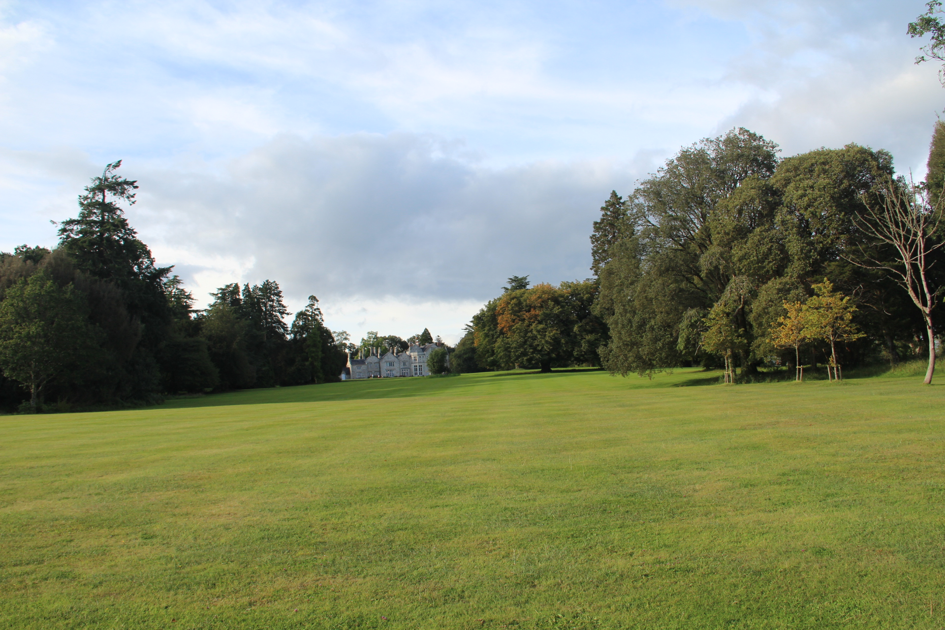 View from the lake.